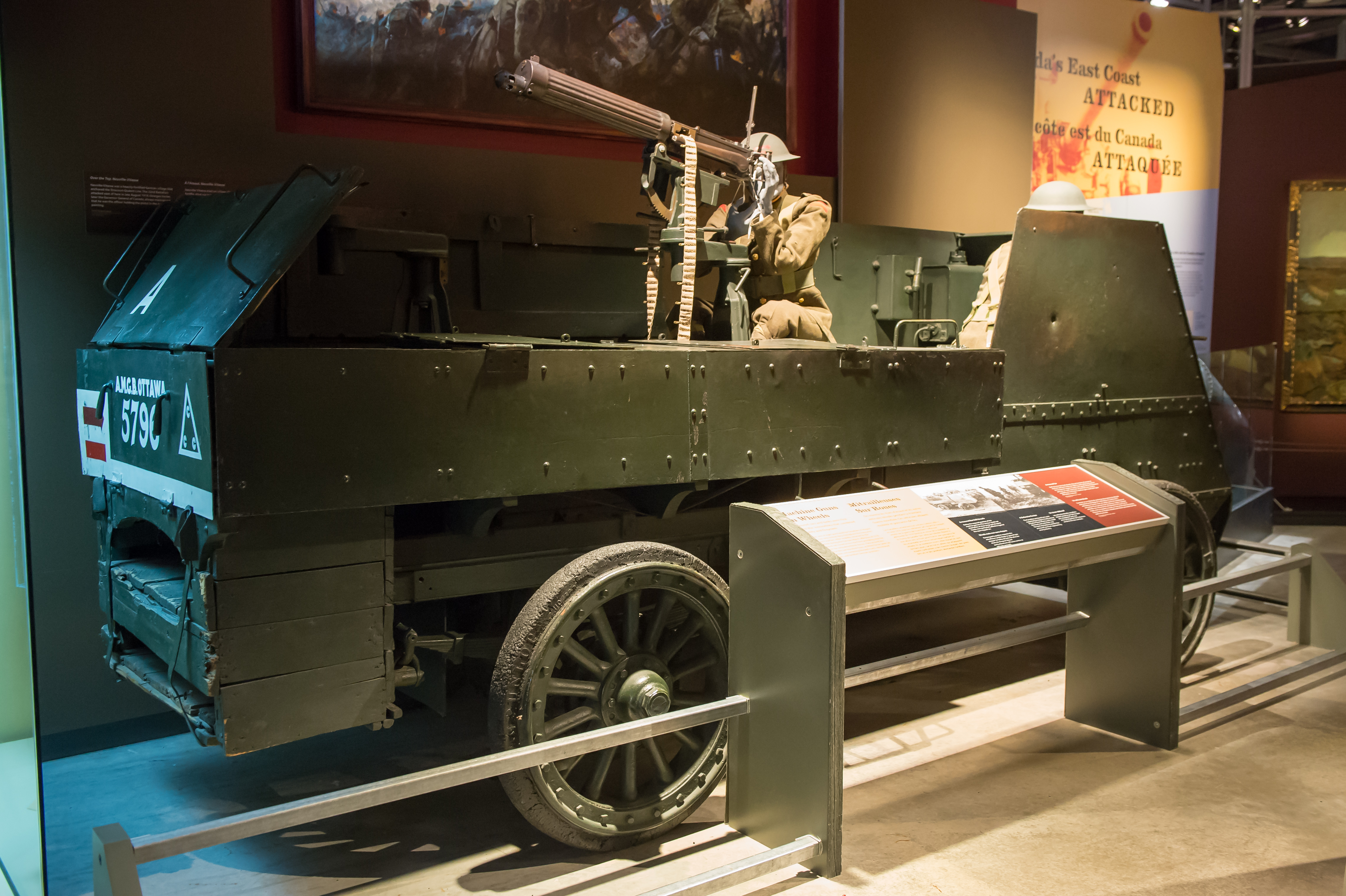 The only surviving Armoured Autocar at the Canadian War Museum. Uploader's description: "Armoured Car CWM 19390001-022 Built on a two-ton truck chassis, the car has 5mm of armour at the front 3mm in the rear. With its solid rubber tires and its 22-horsepower engine, it could reach 30-40 kilometres per hour on roads, but it had a very limited cross-country capability. Its twin Vickers machine guns could each spew 450 bullets a minute."